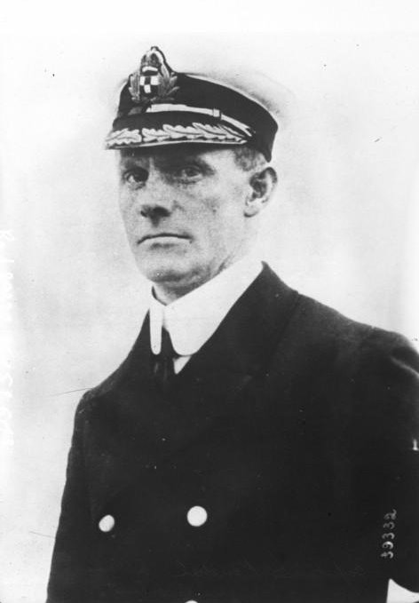 Henry Kendall, captain of the RMS Empress of Ireland (steamship which sank on May 29th, 1914) (Picture taken by Rol Press Agency)